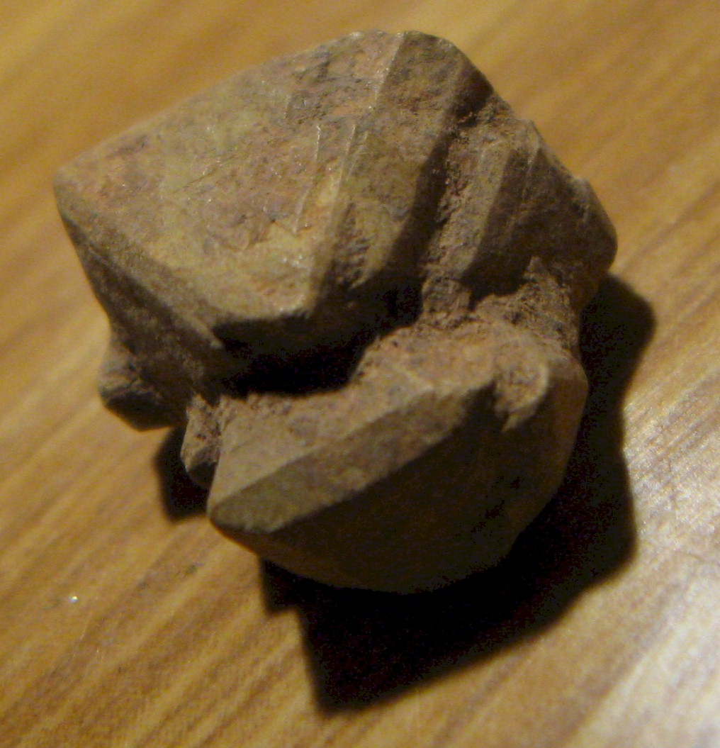 Betafite mineral specimen